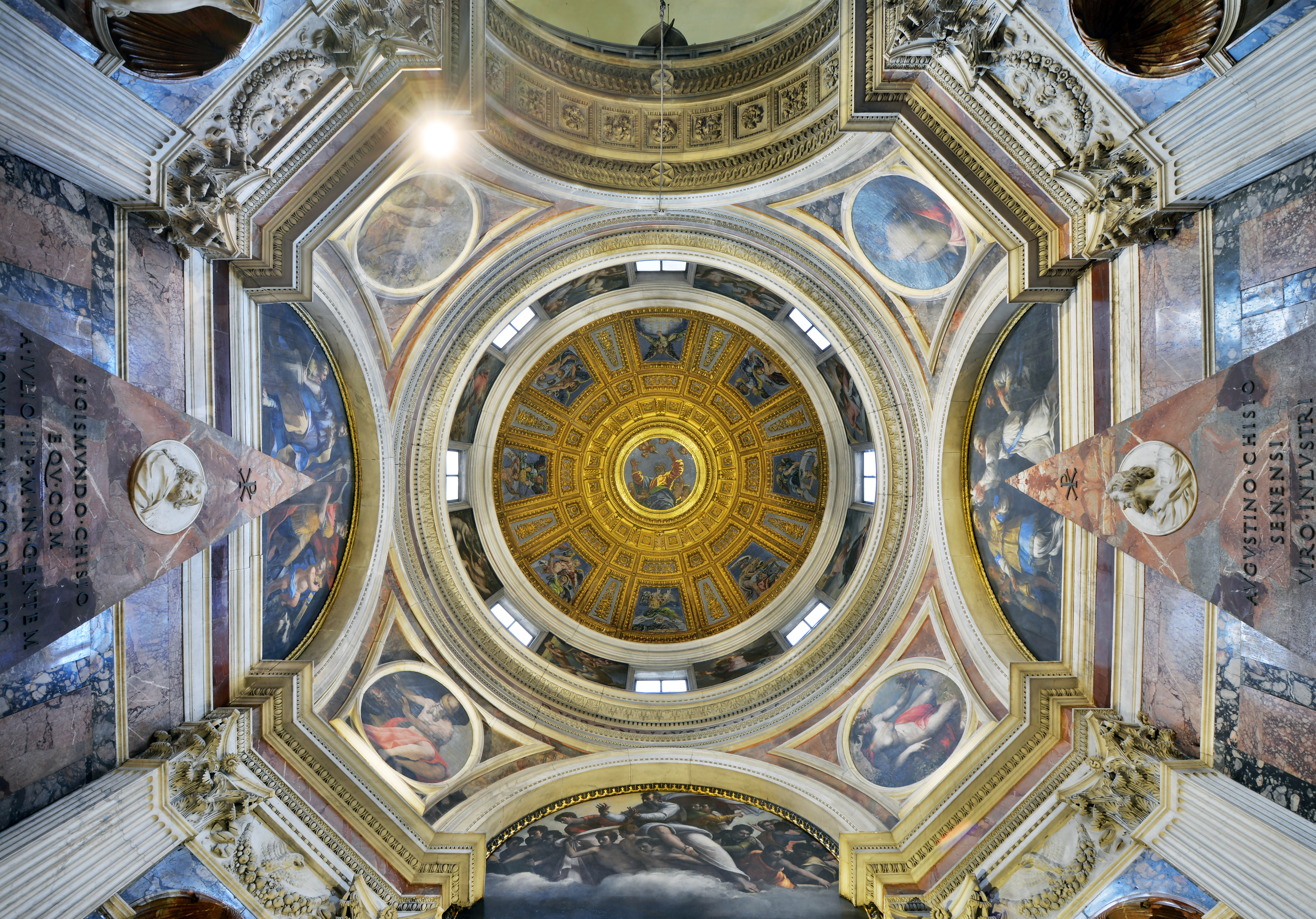 Dome Cappella Chigi, Santa Maria del Popolo (Rome) Wide view